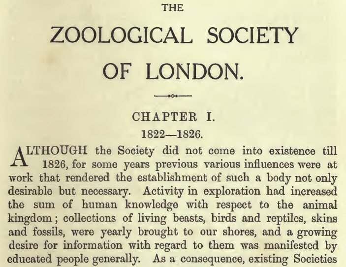 First few lines of Henry Scherren's 1905 book on the ZSL.